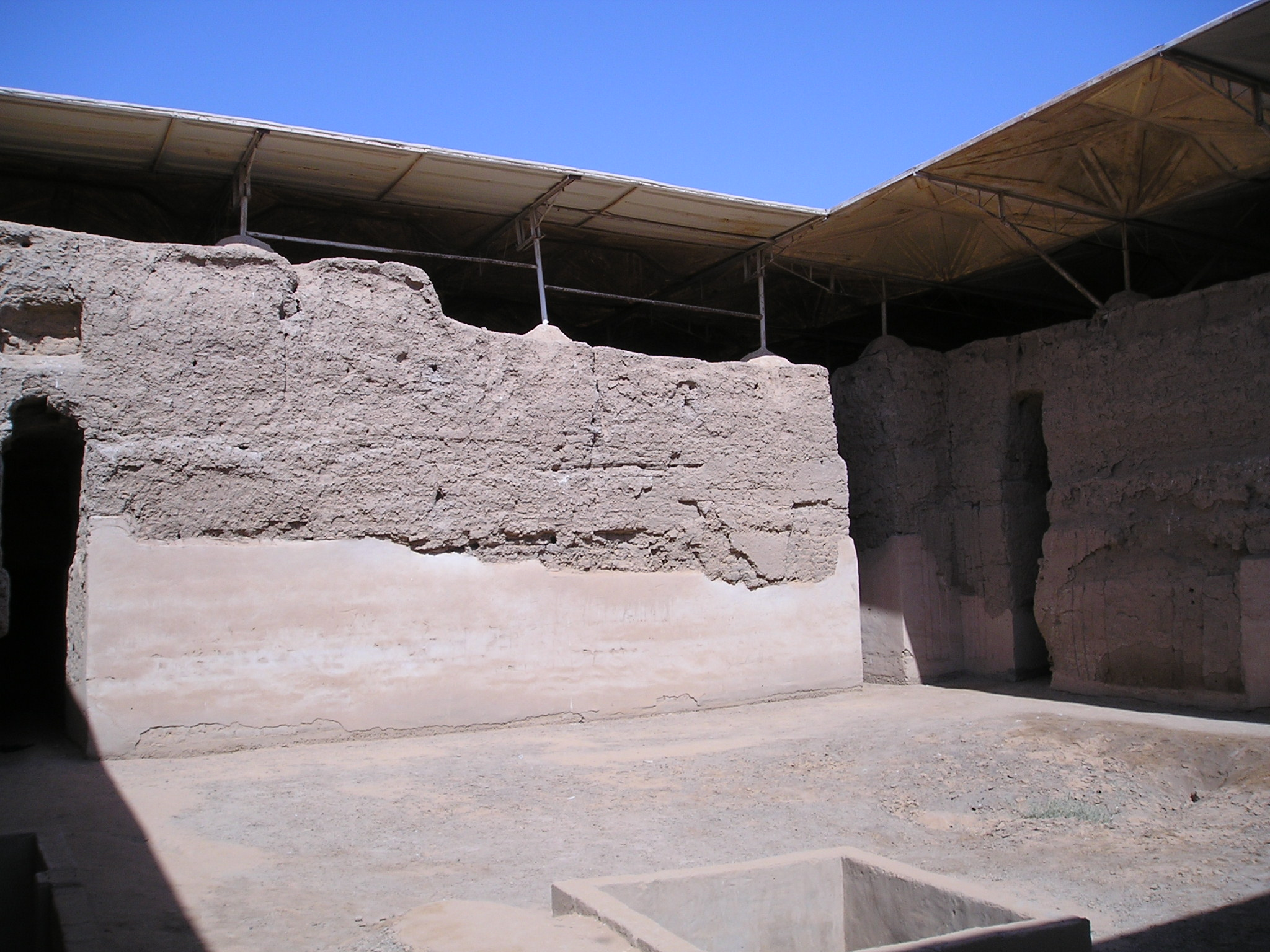 Mari, Syria - Zimri Lim Palace